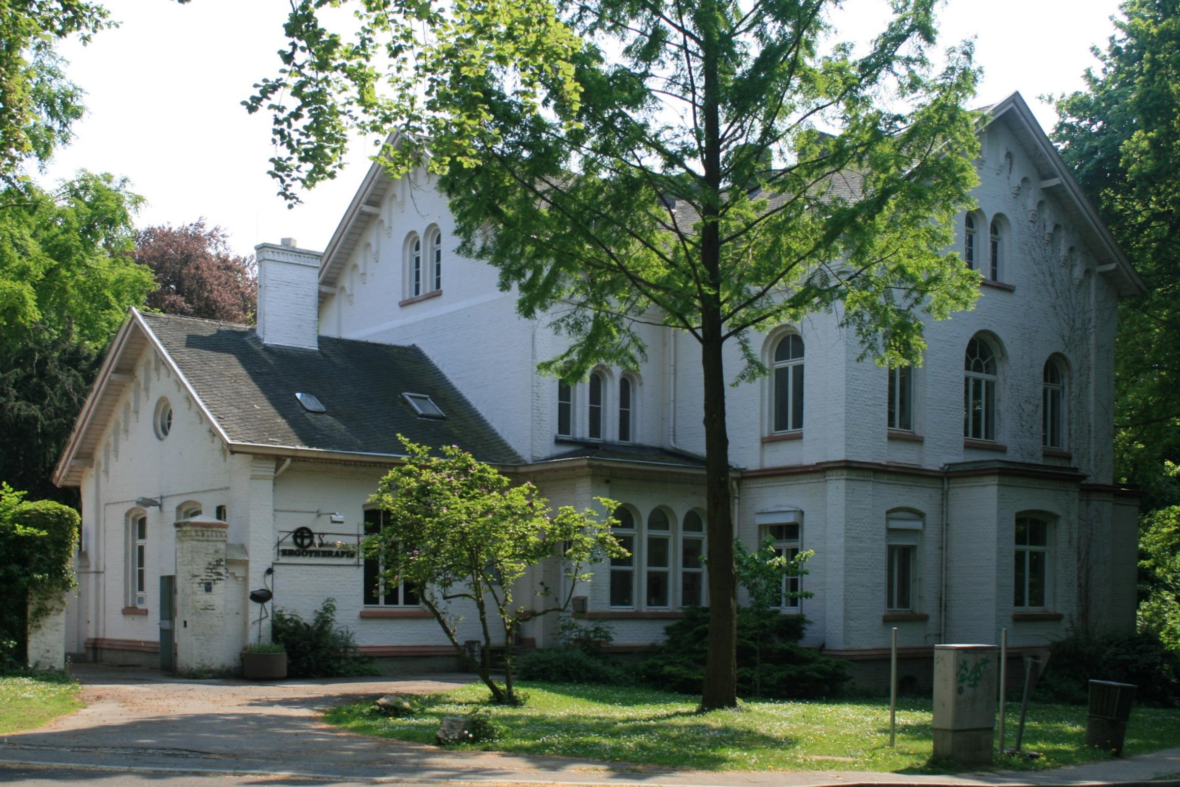 Cultural heritage monument No. 1/001b in Düren